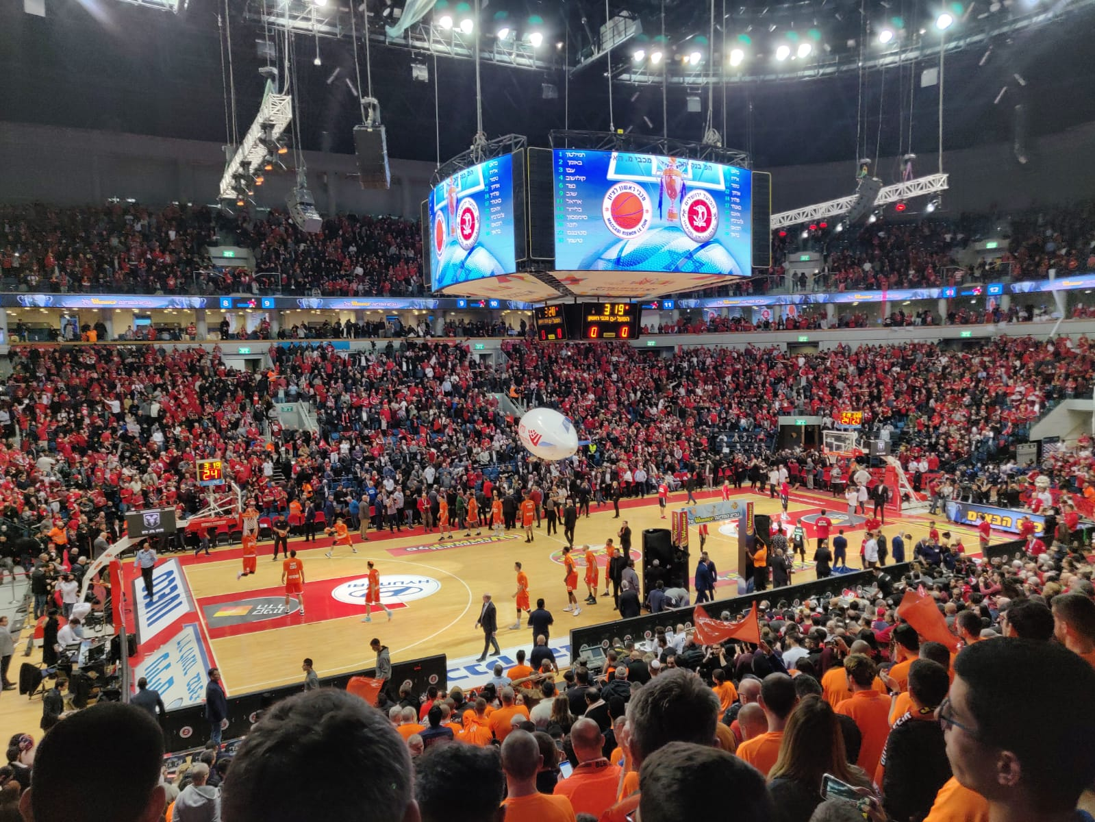 גמר גביע המדינה בכדורסל 2019